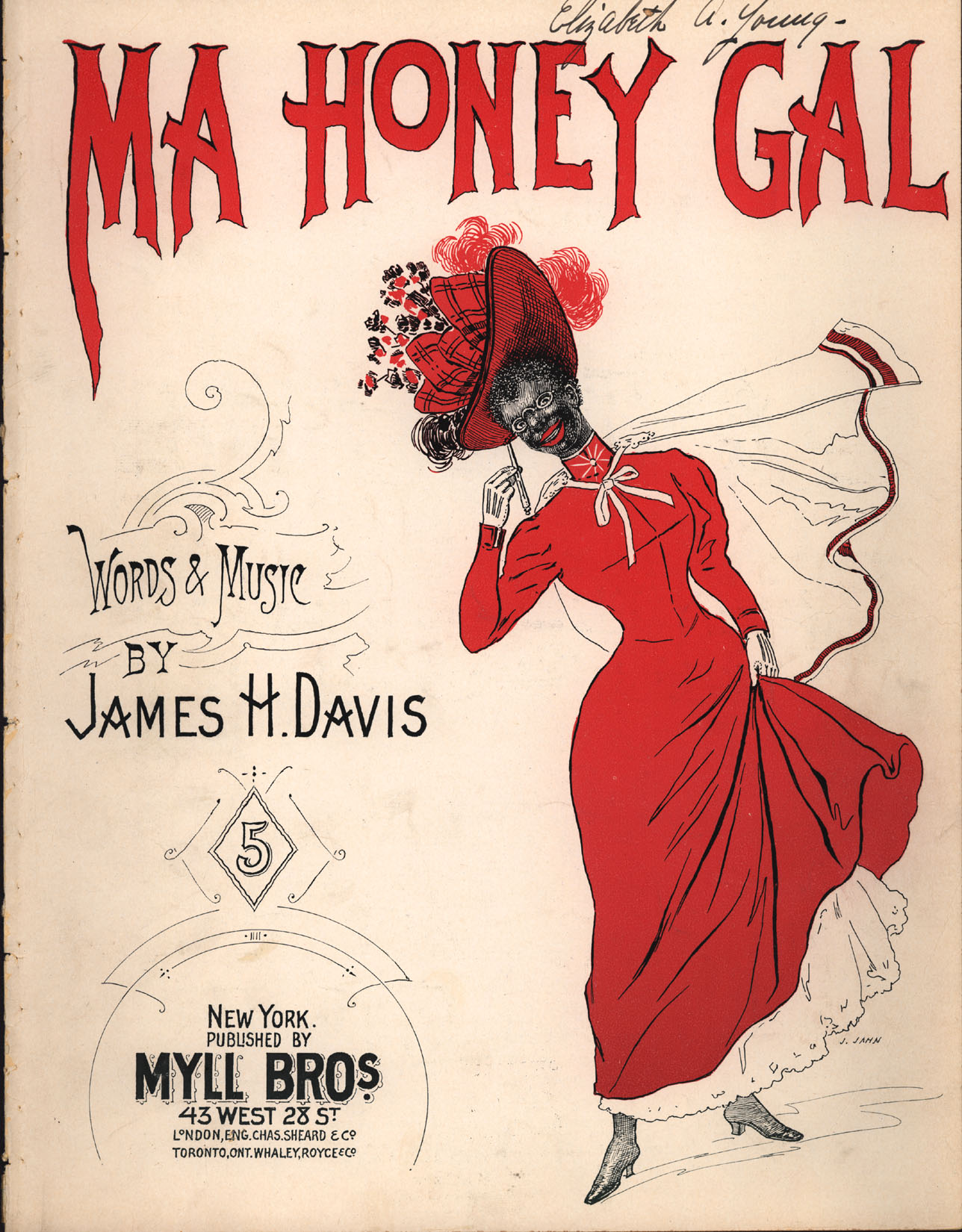 Item Title Ma honey gal / words & music by James H. Davis. Davis, James H. Other Titles First line of text: I've got a gal and she is ma baby. First line of chorus: Stand back you niggers. Notes For voice and piano. Caption title. Advertisements for other music: p. 2-[6] Cover illustration: drawing of Black woman in Gay Nineties outfit / J. Jahn. Library's copy inscribed: Elizabeth A. Young. Originally published: New York : Myll Bros., c1898. Subjects Afro-American women--Songs and music. Popular music--United States. Related Names Illustrator: Jahn, J., Myll Bros. (New York, N.Y.) Part of Sheet Music Collection, The John Hay Library Repository Brown University Library Box A, Providence, RI, 02912 Digital ID rpbaasm 0362